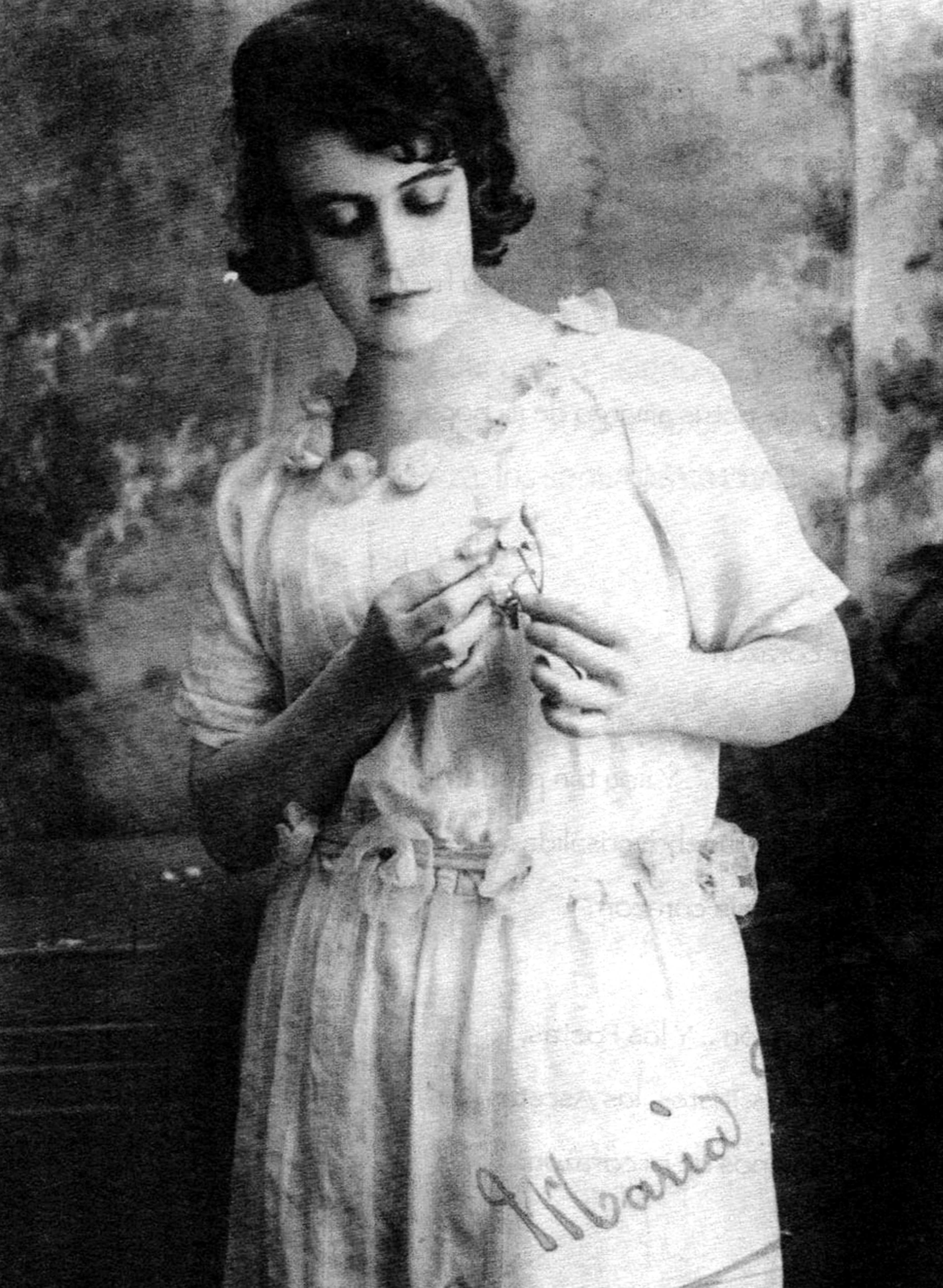 Mary Corylé (María Ramona Cordero y León) was a writter and ecuadorian poet